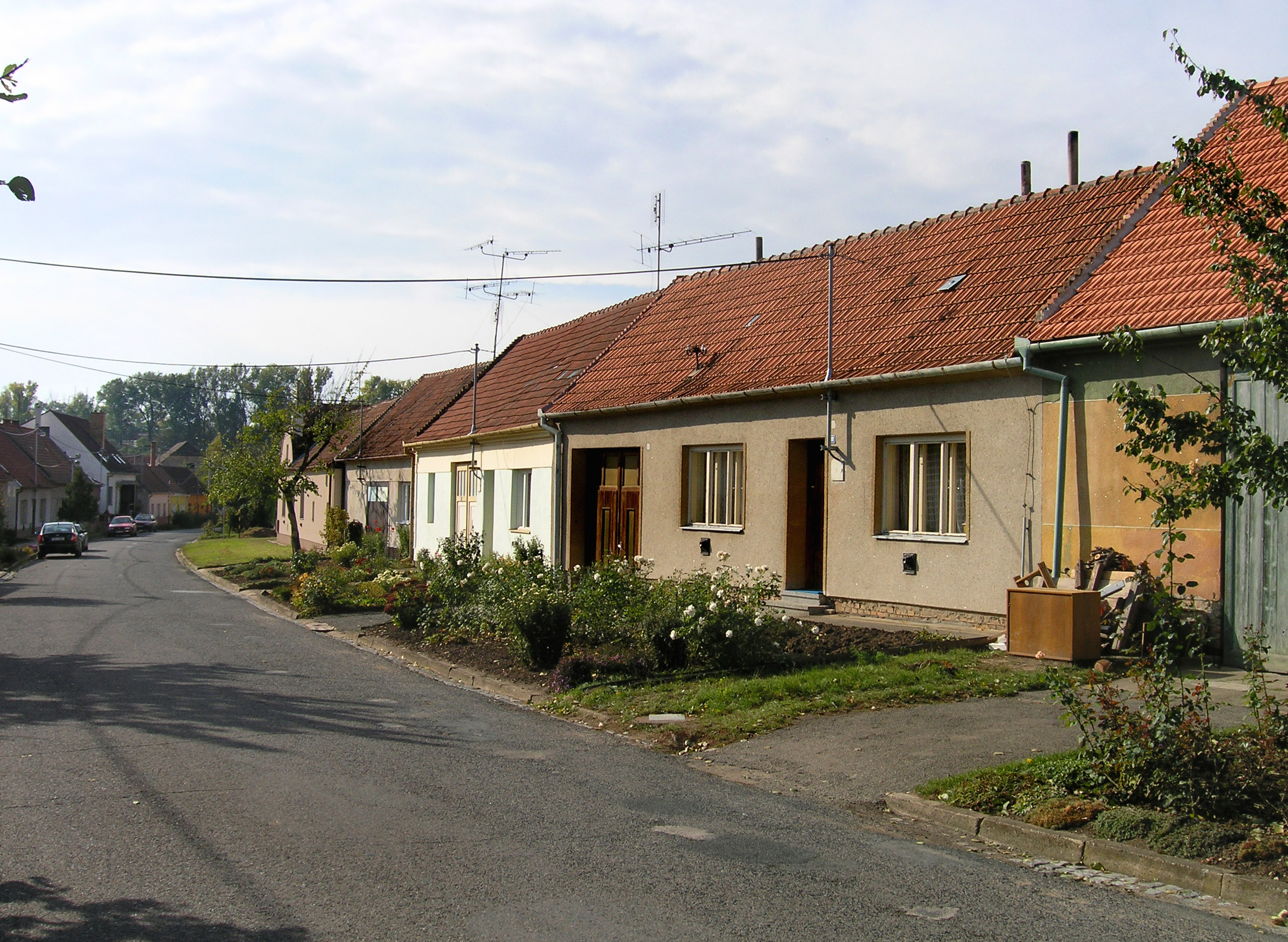 North part of Krumvíř village, Czech Republic